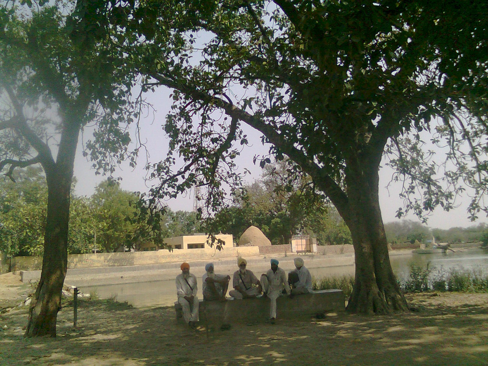 One of the places, known as satth, people use to be together in their free time. People sit under a Pipal tree in Raipur village of Mansa district in Indian Punjab.